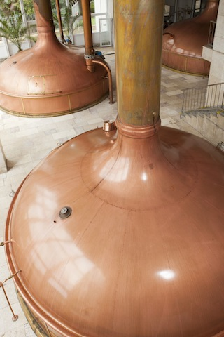 Brewery of Kozel beer in Velke Popovice